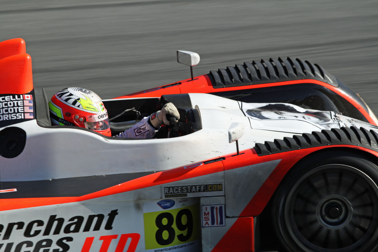 Kyle Marcelli driving the Intersport Racing Oreca FLM09-Chevrolet in the 2011 Petit Le Mans at Road Atlanta.